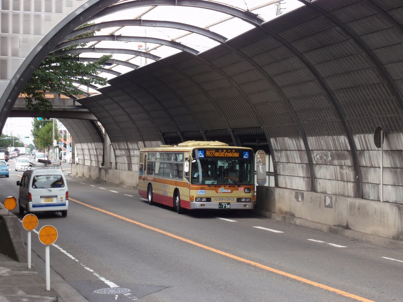 Kanagawa Chuo Kotsu "So 27" Route at Danchi-kita Bus Stop in Sagamihara City